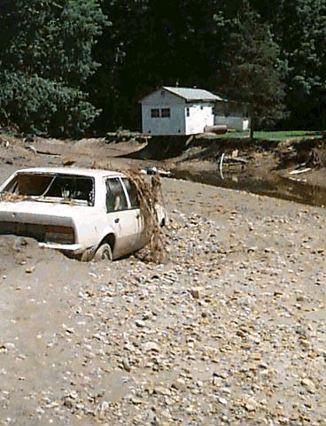 Bristol, VT: The New Haven River cut a new streambed through the Palmer Trailer Court here during June 27, 1998 flooding. A FEMA, State local buyout of homes in the trailer park is underway.